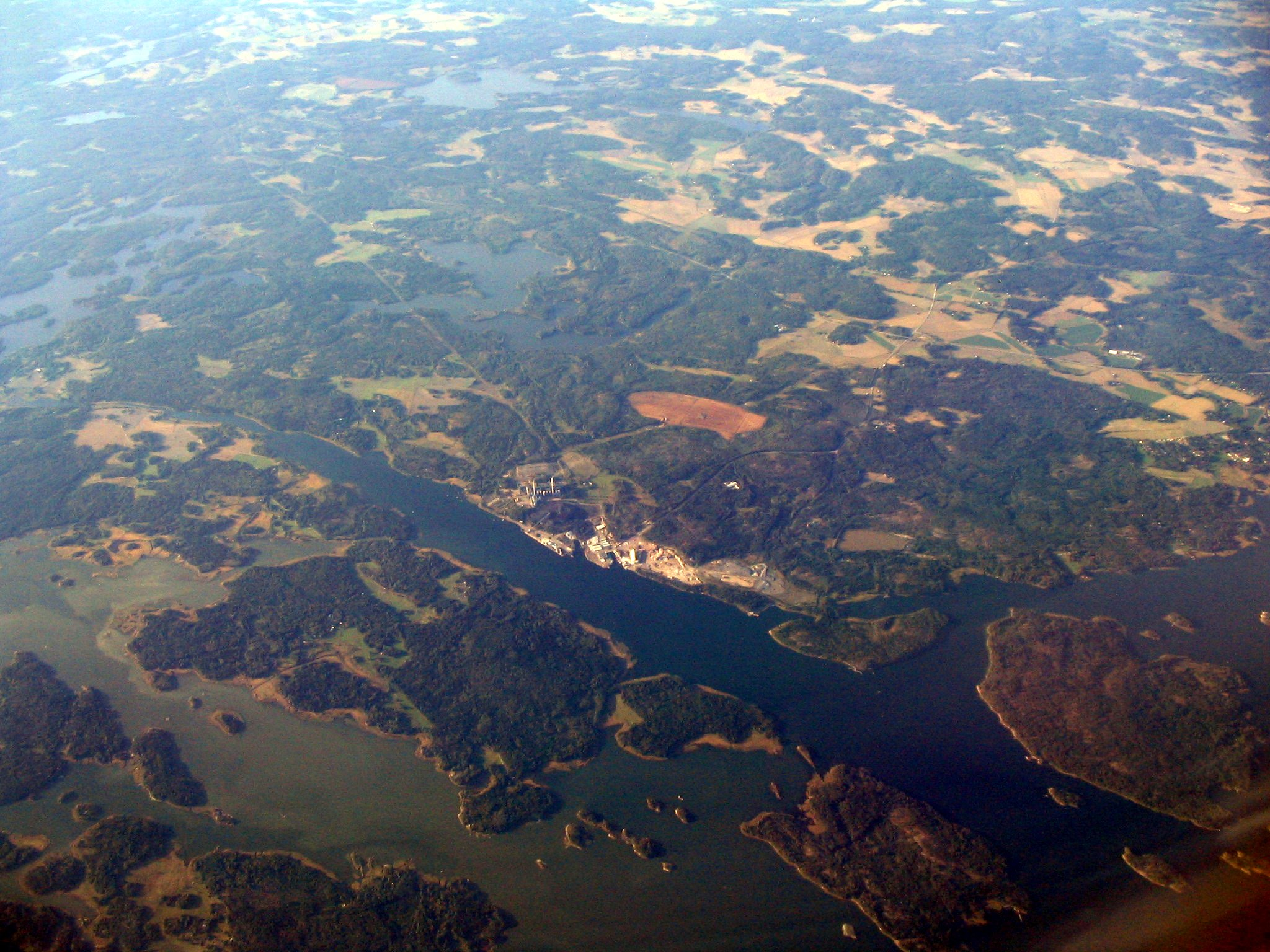 Aerial view of Inkoo power plant, Finland